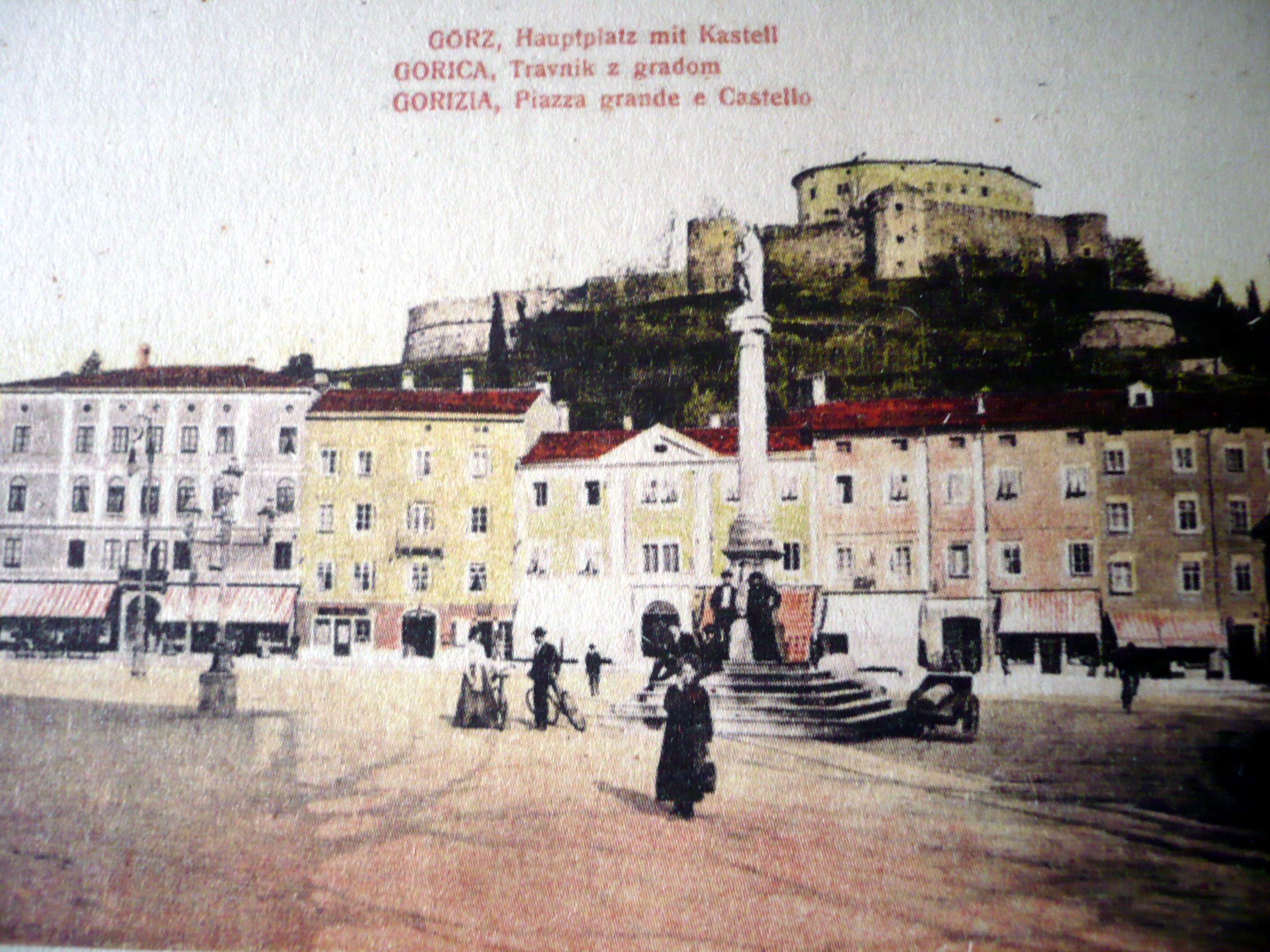 The town of Gorizia / Gorica, on the border between Italy and Slovenia, in 1900.